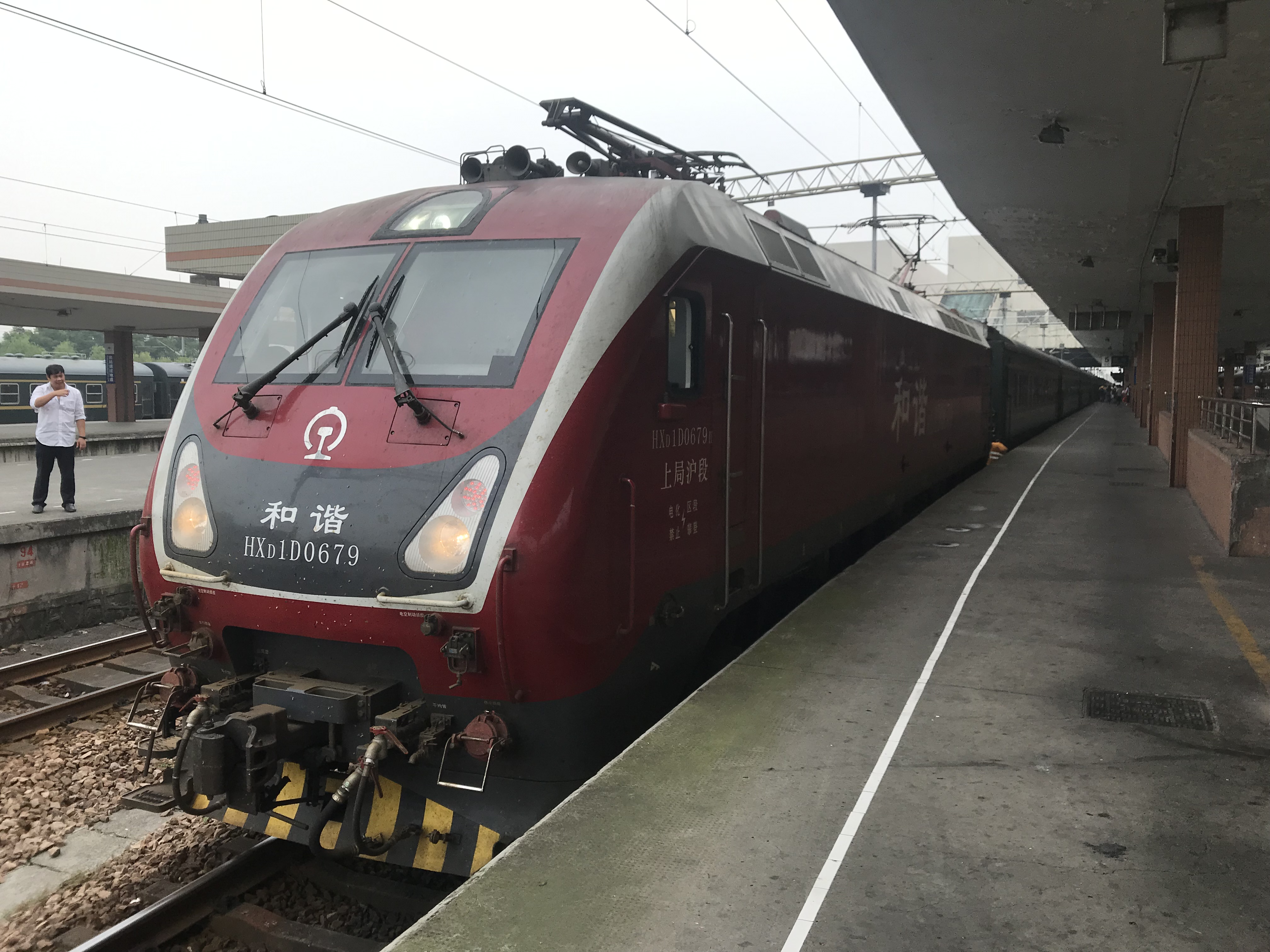 Just decoupled.